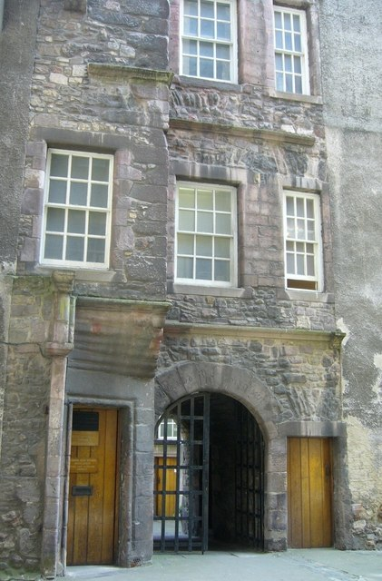 Riddle's Court entrance, Lawnmarket View of the entrance to Riddle's Court from the outside courtyard in Riddle's Close.